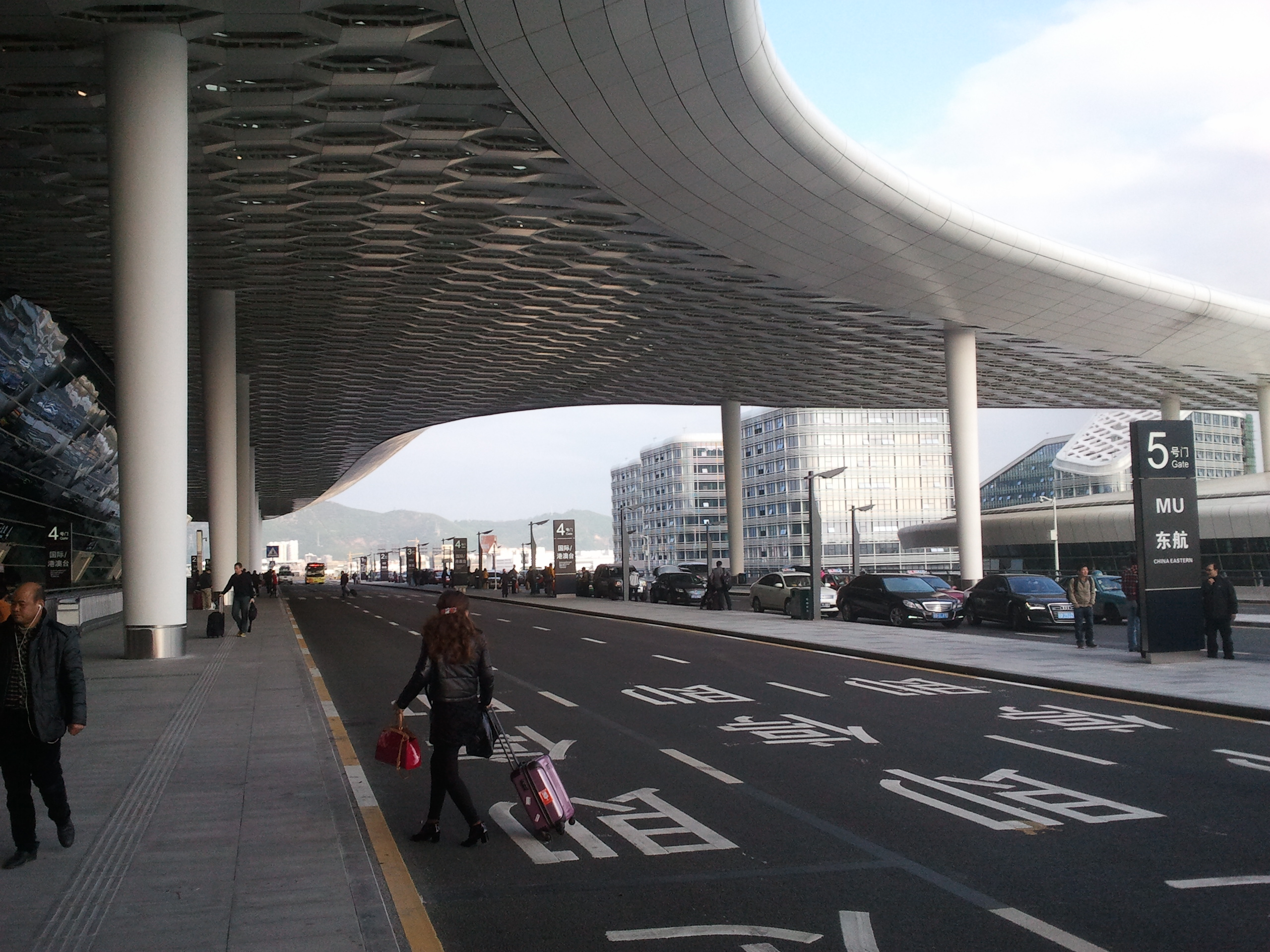 Shenzhen Baoan International Airport departure floor motorway